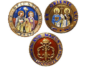 Three medaillons, above twice the avers, below a single reverse medaillon. of the cross of the Bulgarian Order of Saints Cyril and Methodius